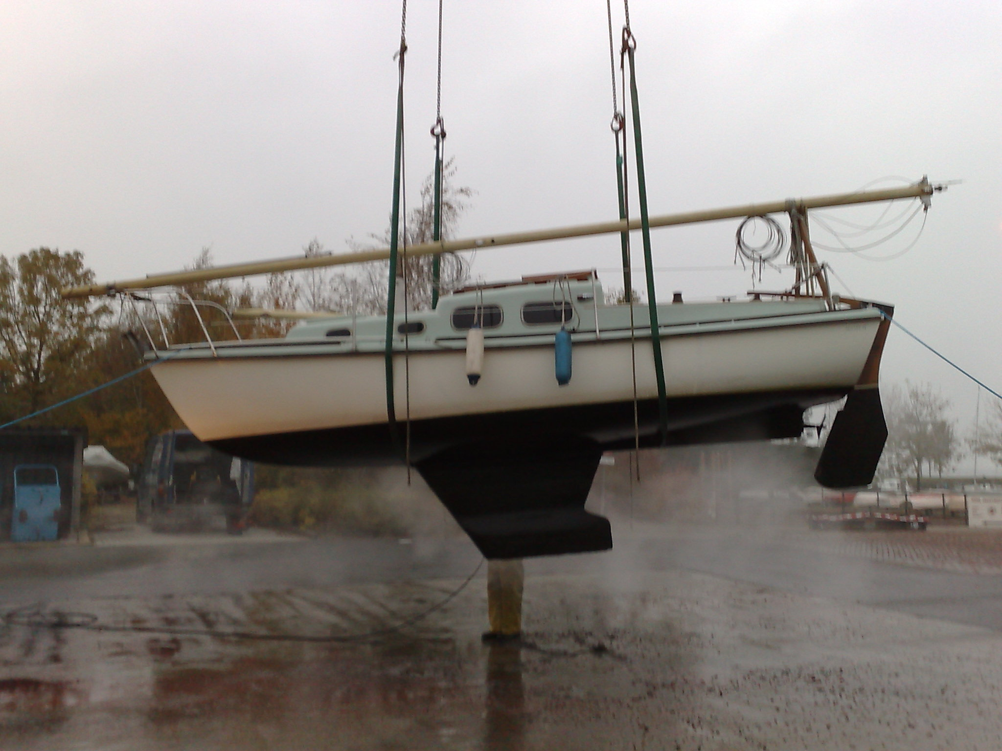 Halcyon 23 hanging from a crane